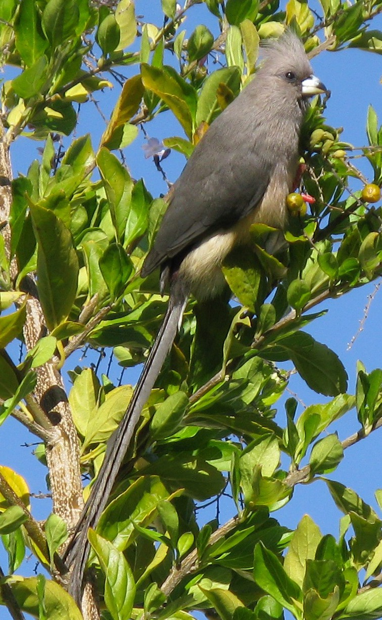 Colius colius, the White-backed Mousebird in a Garden setting, The black-tipped upper bill is diagnostic.